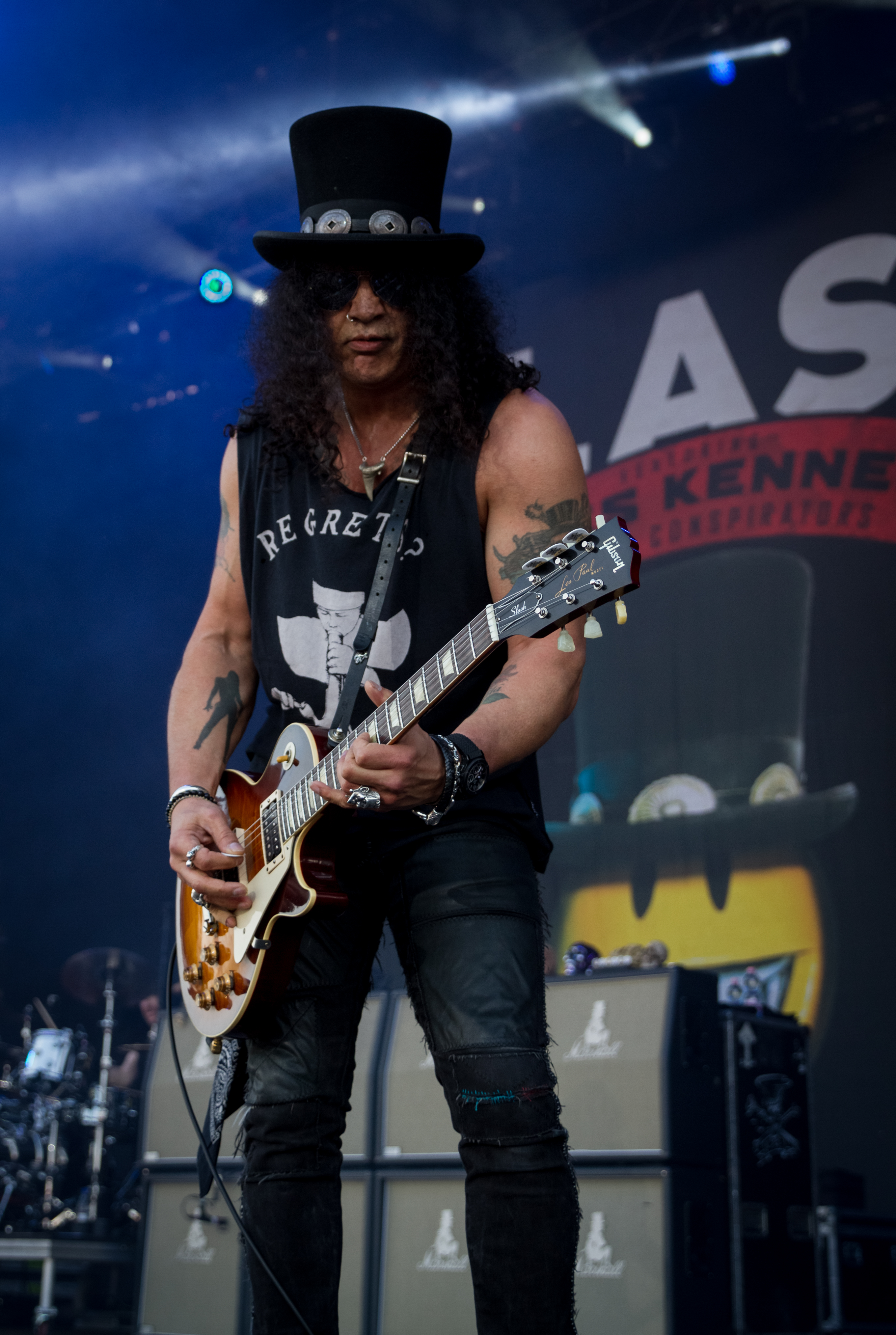 Slash feat Myles Kennedy & The Conspirators - Rock am Ring 2015